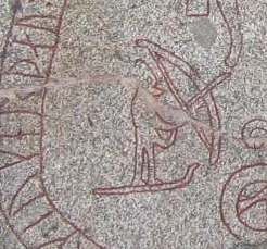 a detail of a runestone